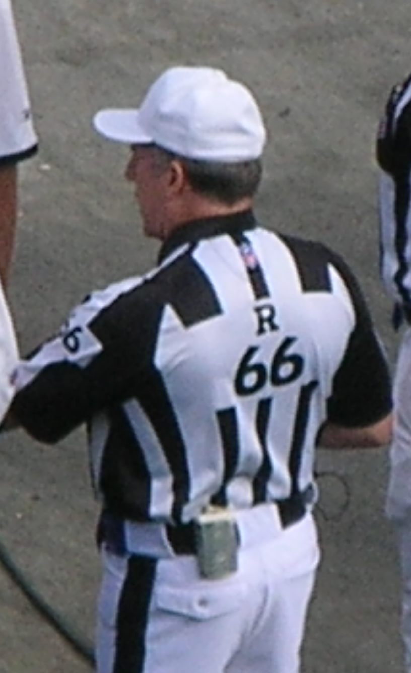 Referee Walt Anderson prior to a game at the Oakland Coliseum between the Oakland Raiders and Atlanta Falcons. The Falcons won 24-0.